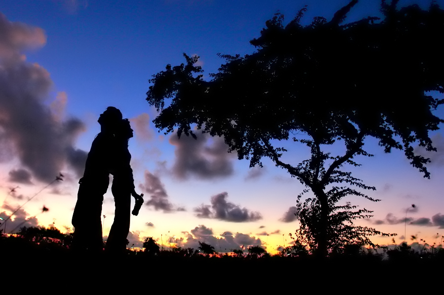 "A part of you has grown in me. And so you see, it's you and me together forever and never apart, maybe in distance, but never in heart." "Falling in love with someone isn't always going to be easy... Anger... tears... laughter.. It's when you want to be together despite it all. That's when you truly love another. I'm sure of it." "A year, ten years from now, I'll remember this; not why, only that we were here like this, together." “Two lives, two hearts joined together in friendship united forever in love.” “Coming together is a beginning. Keeping together is progress. Working together is success.” Location: Hulhumale